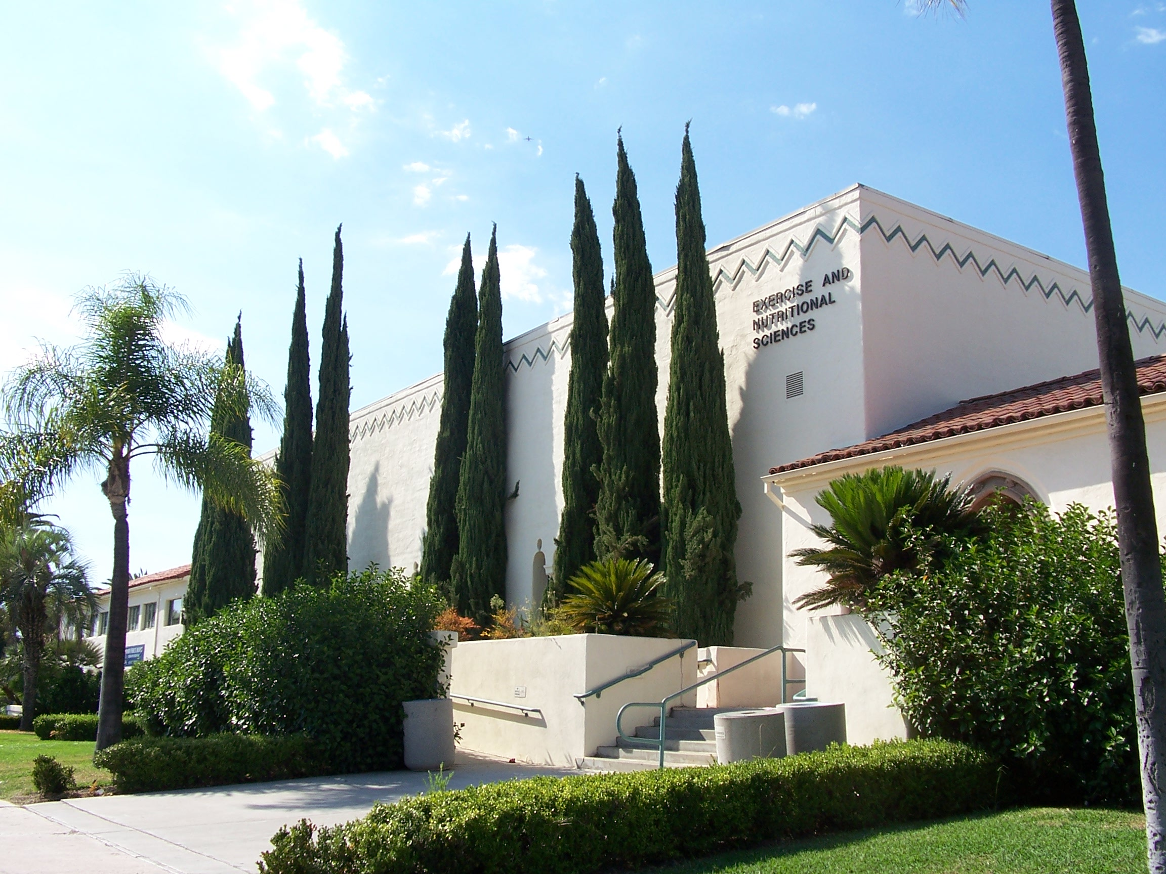 Exercise & Nutritional Sciences building at San Diego State University